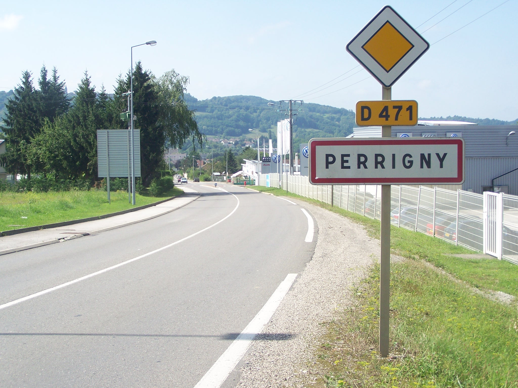 Sign welcoming visitors to the commune of Perrigny near Lons-le-Saunier, in Jura, France.